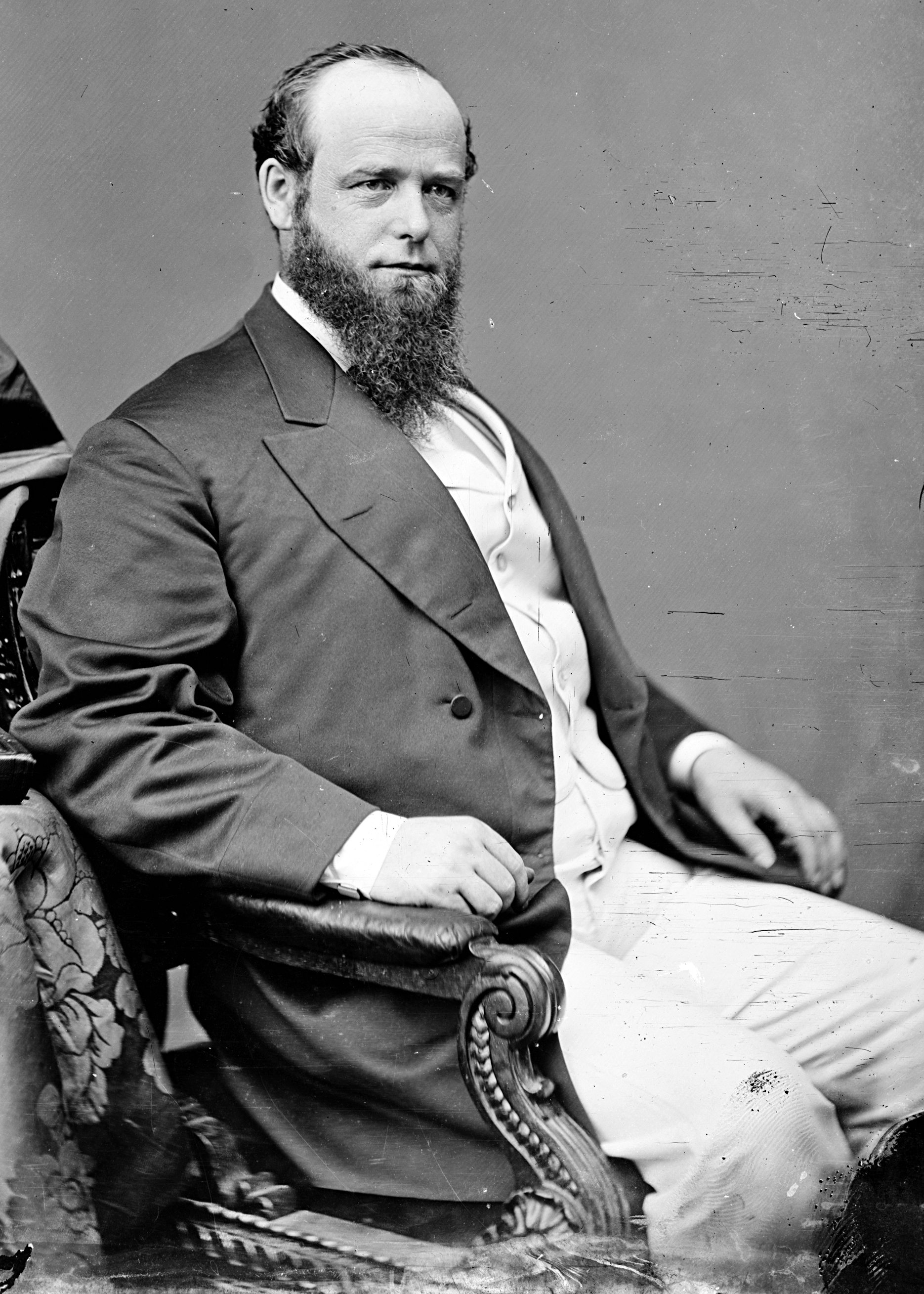 Porter Sheldon, US Representative from New York